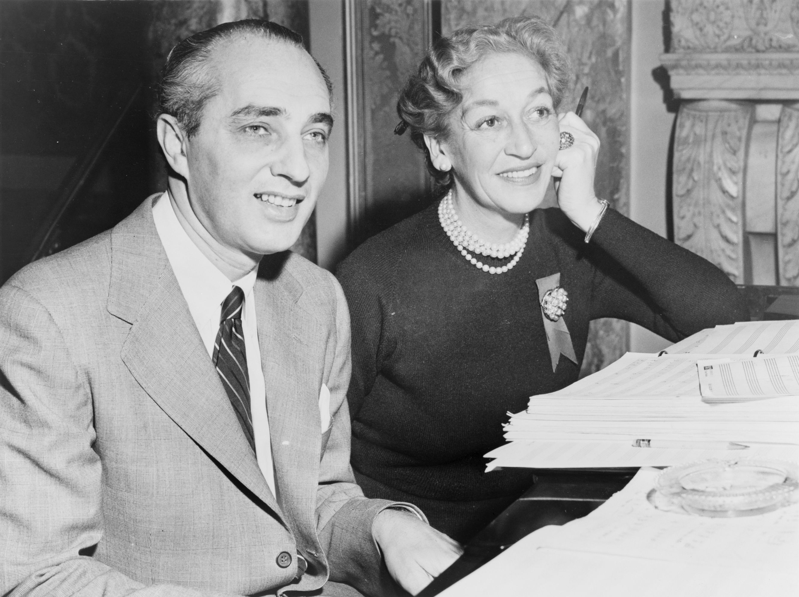 Dorothy Fields & Arthur Schwartz work on score of "A Tree Grows in Brooklyn" / World Telegram & Sun photo by Walter Albertin.